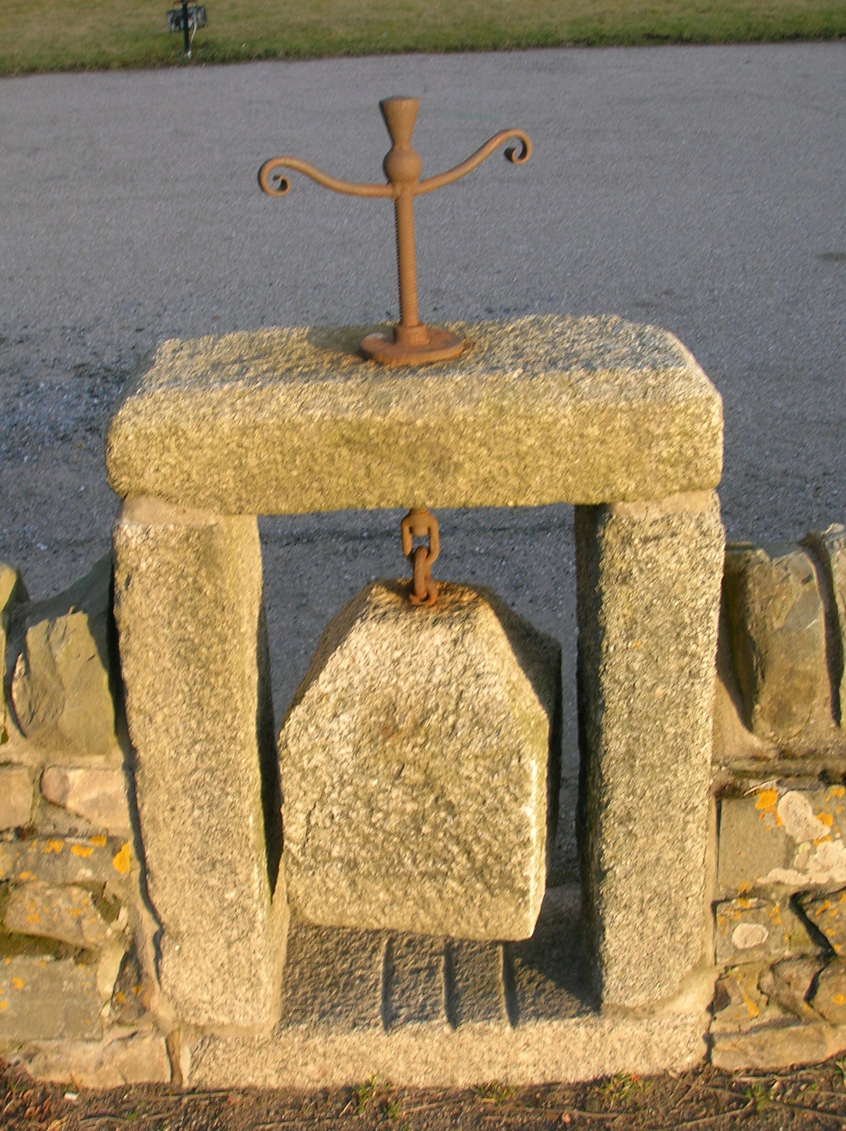 An old cheese press at Cromdale near Grantown on Spey, Scotland